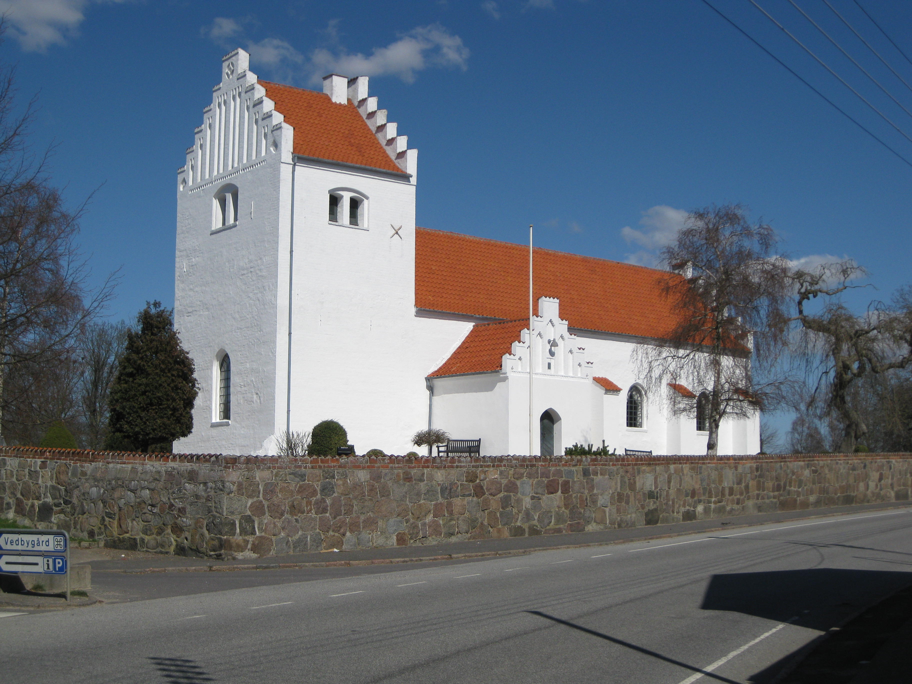 The church "Ruds Vedby Kirke" in the small town Ruds Vedby. The town is located in West Zealand, Denmark.